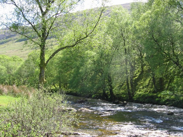 Douglas Water. This may be cattle country, but the river side is still well wooded. The Douglas water rises almost by Loch Long and runs eastward into Loch Lomond through a very beautiful glen.